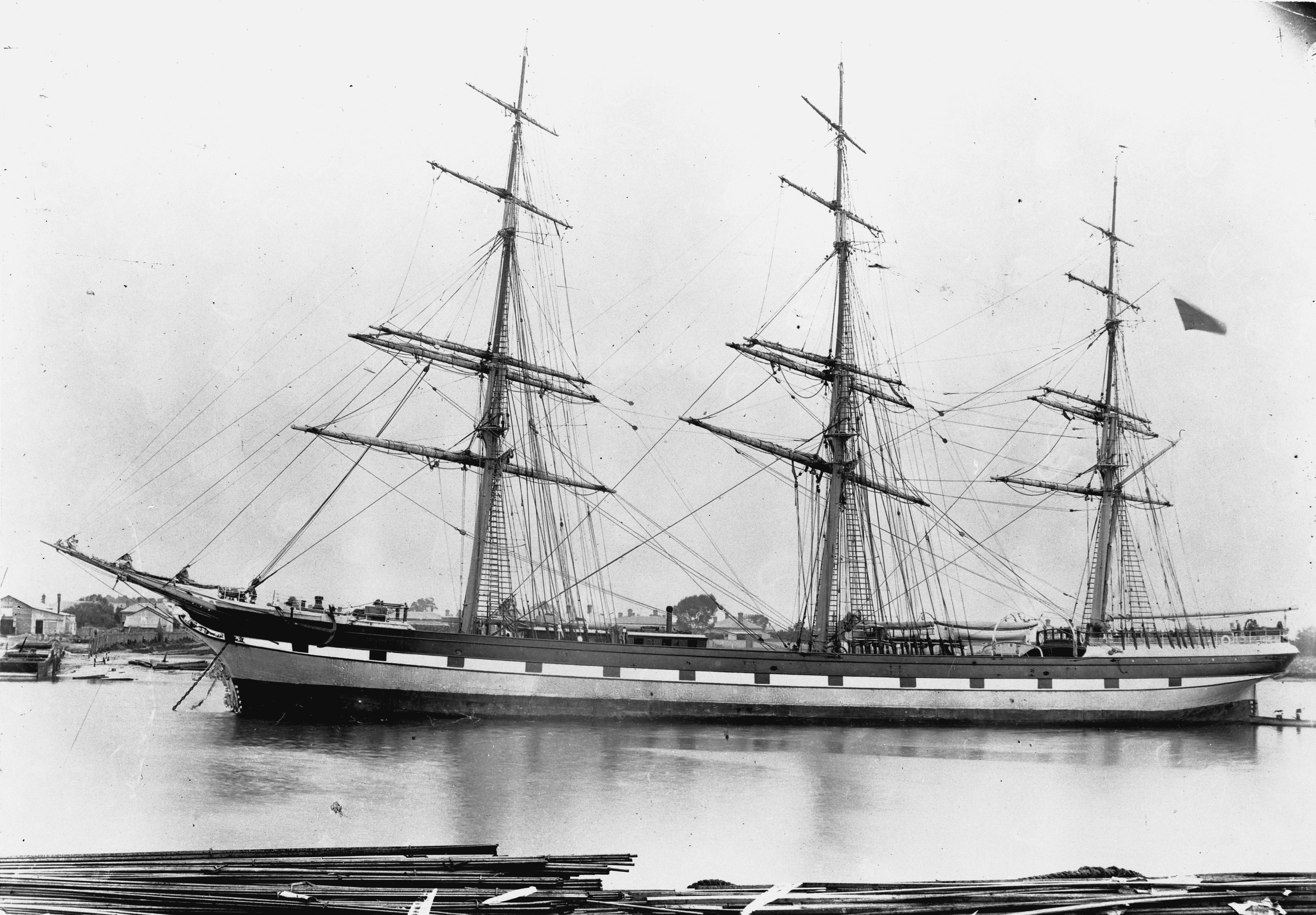 Original caption: “The ‚Earl of Zetland‘ at Port Chalmers in 1875”ID: 1/2-031547-F